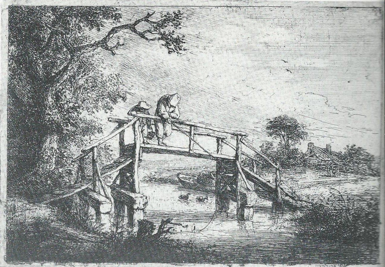 Adriaen van Ostade - Kwakelbridge in Heemstede with fishermen